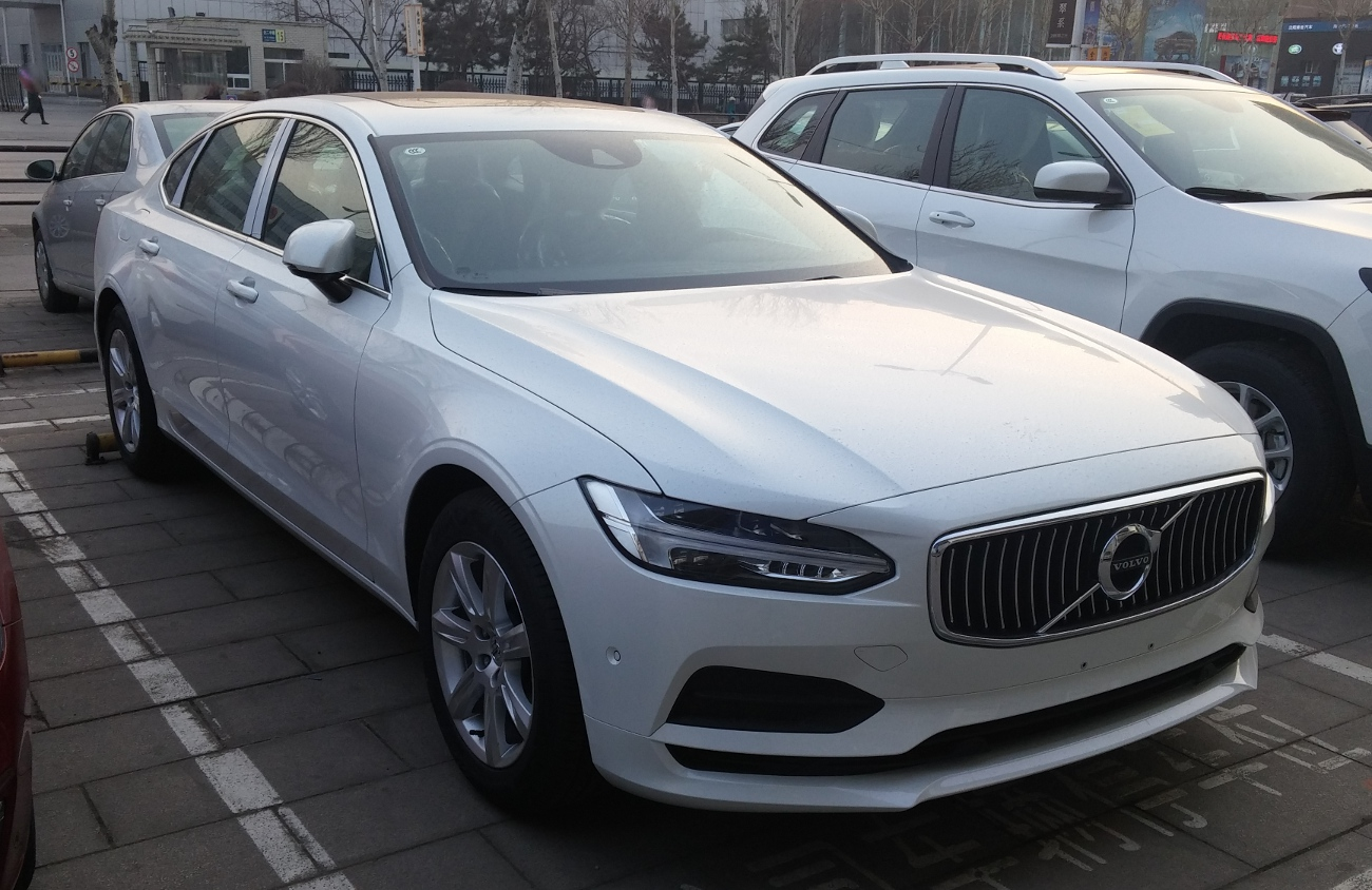 Volvo S90 II photographed in Shenyang, Liaoning province, China.